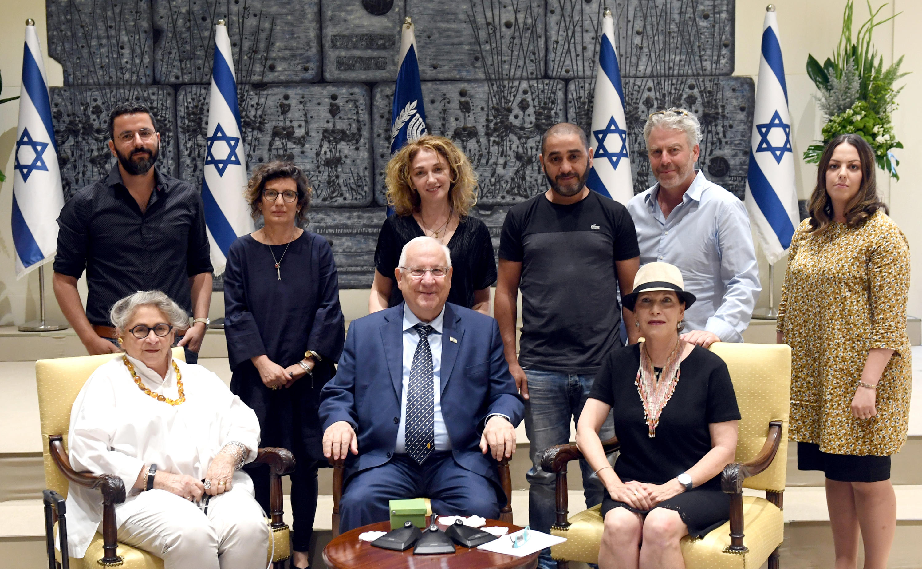 ביקור שחקנים ויוצרים ממעלה - בית הספר לטלוויזיה לקולנוע ולאמנויות בבית הנשיא בתמונה: עומדים מימין לשמאל- רחל אליצור היוצרת החרדית, הבמאי עמיחי גרינברג, השחקן הילאל כבוב, השחקנית יבגניה דודינה, ענת צוריה, אלירן מלכה. יושבים- נטע אריאלי מנהלת ביה"ס, נשיא מדינת ישראל ראובן ריבלין ורעייתו נחמה ריבלין.